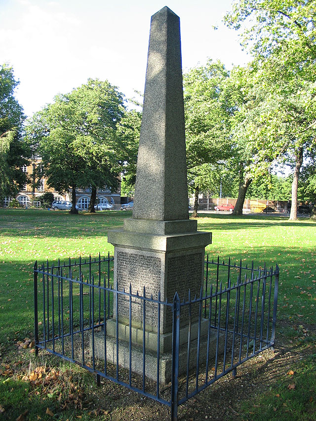 The Hackney Wick Great War memorial in Victoria Park. 28 August 2005. Photographer: Fin Fahey.